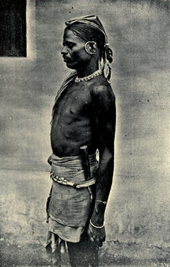 A Koraga tribesman of southern India, ca. 1909